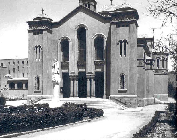 Church of Saint Theresa (Thérèse of Lisieux)